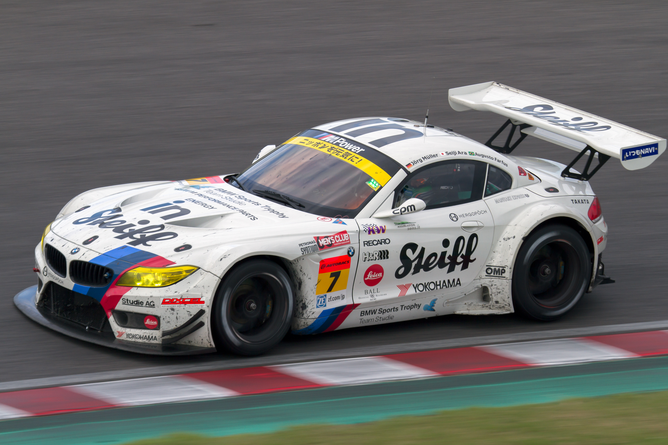 Super GT 2014 Rd.6 Suzuka 1000km: Augusto Farfus (Studie)